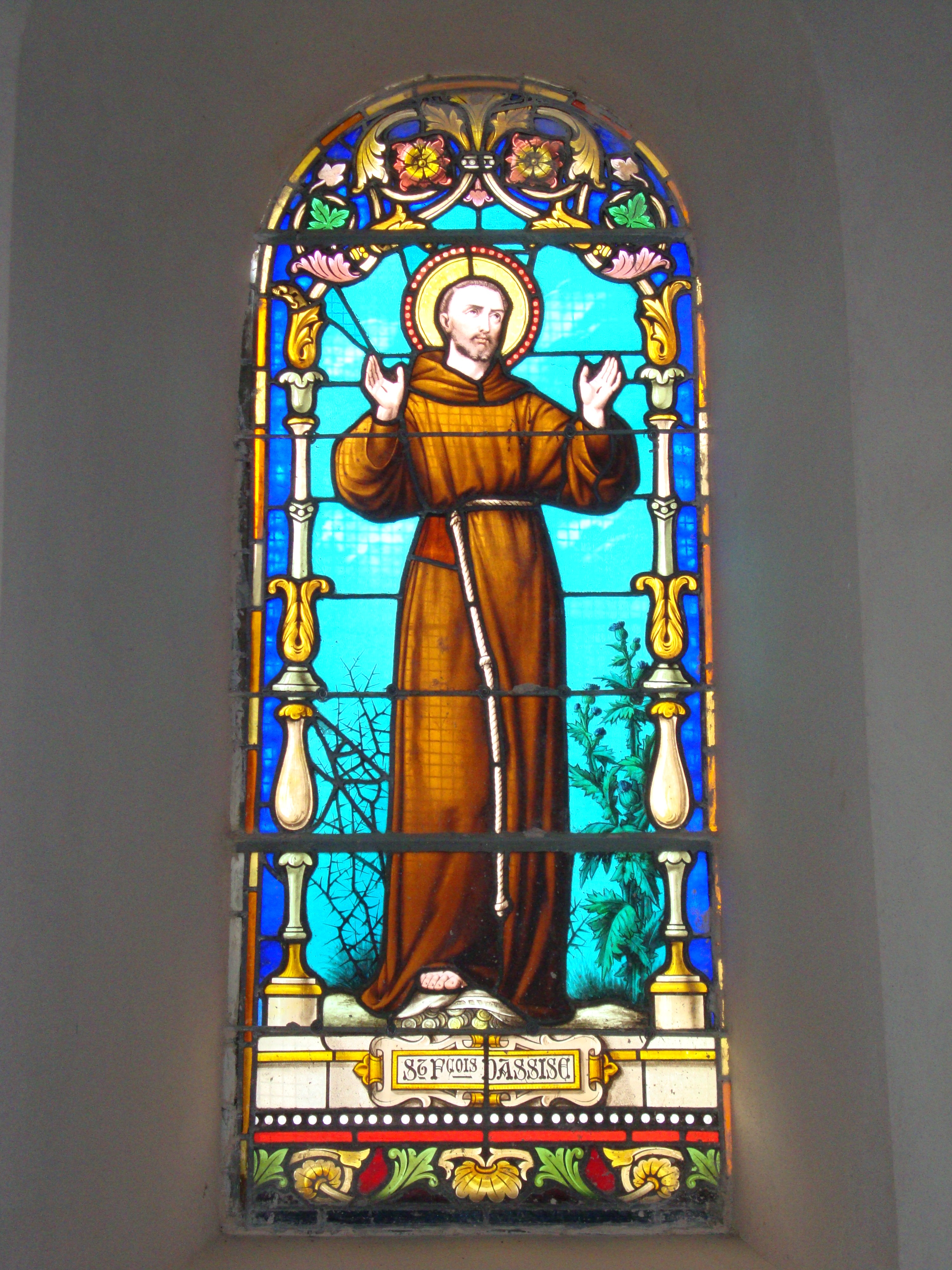 Camou (Camou-Cihigue, Pyr-Atl, Fr) stained glass window of St.François d'Assise